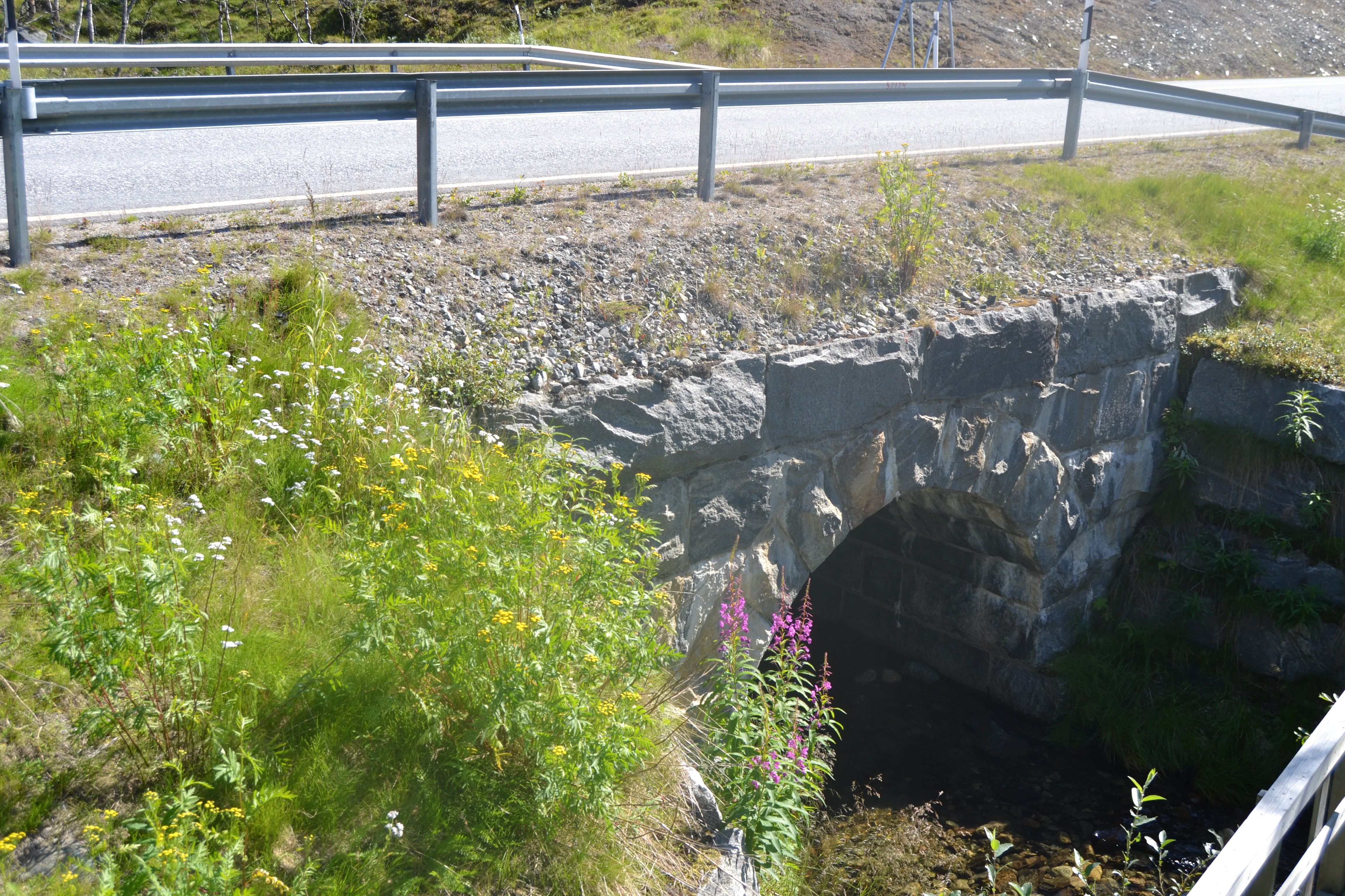 Ahdaskuru bridge on National road 21 in Enontekiö, Finland